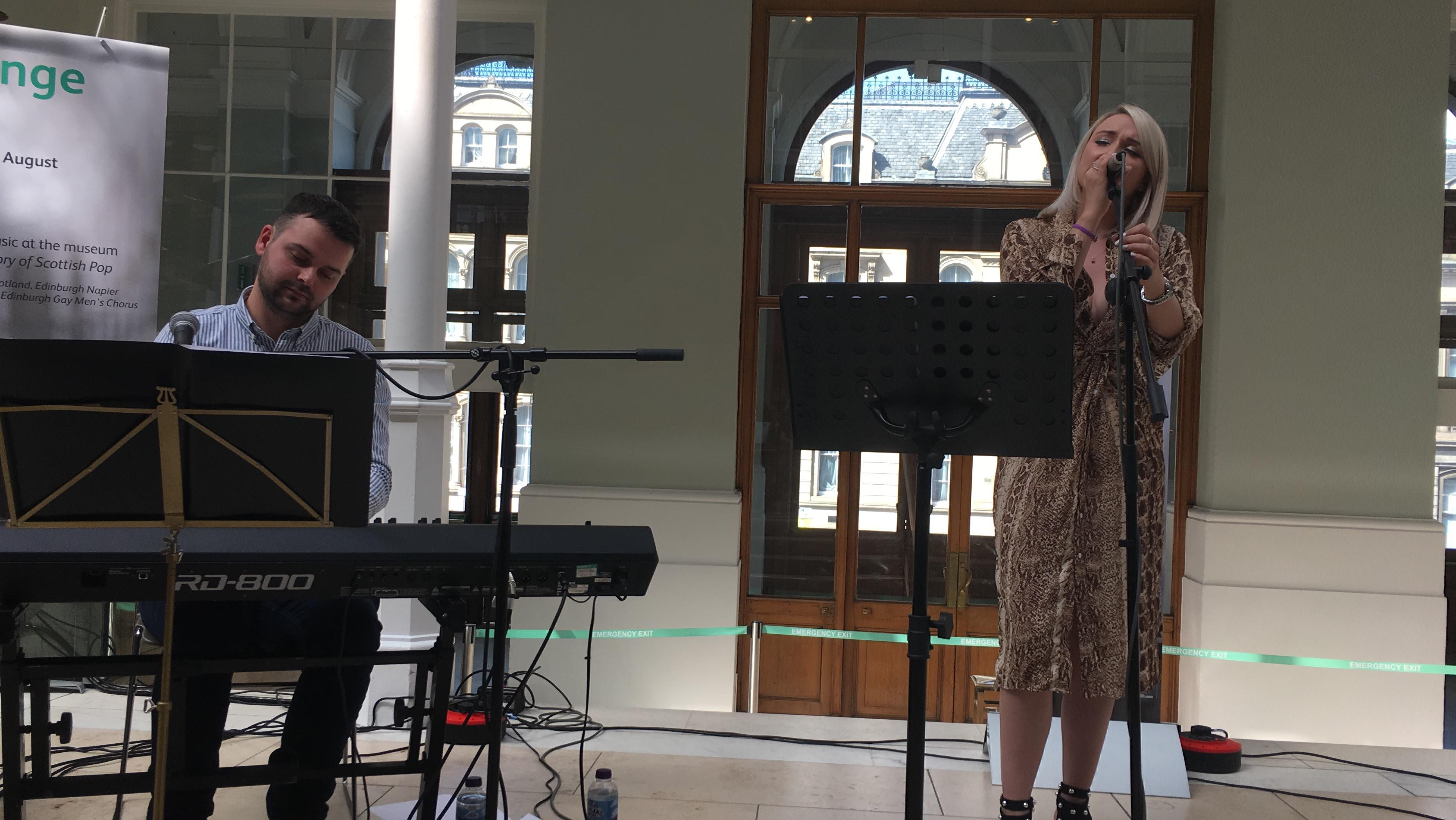 Ainsley Hamill and Alistair Iain Paterson. Live Music Now Free Fringe Music 2018 at the National Museum of Scotland.